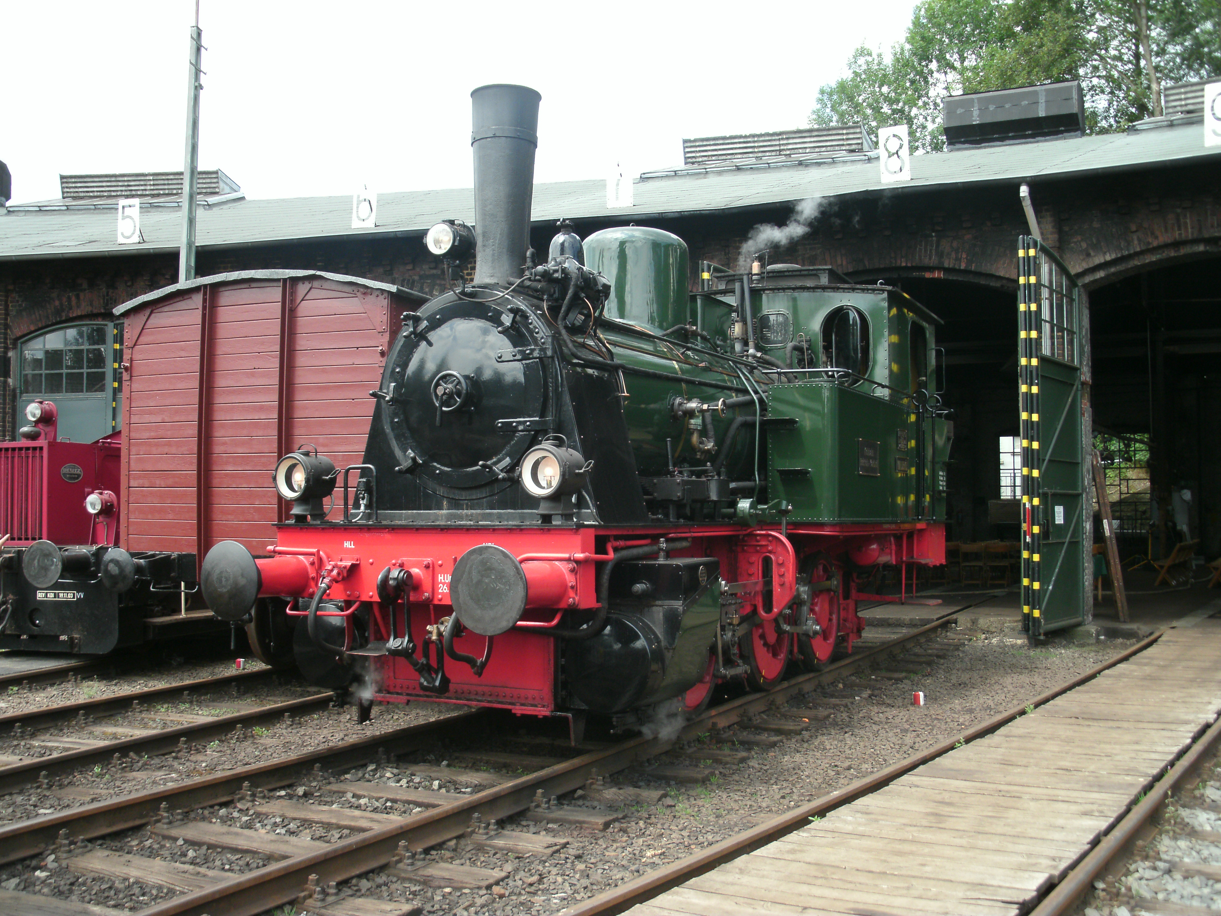 German locomotive "Waldbröl", built by Jung in 1914 (modified T 3 type)